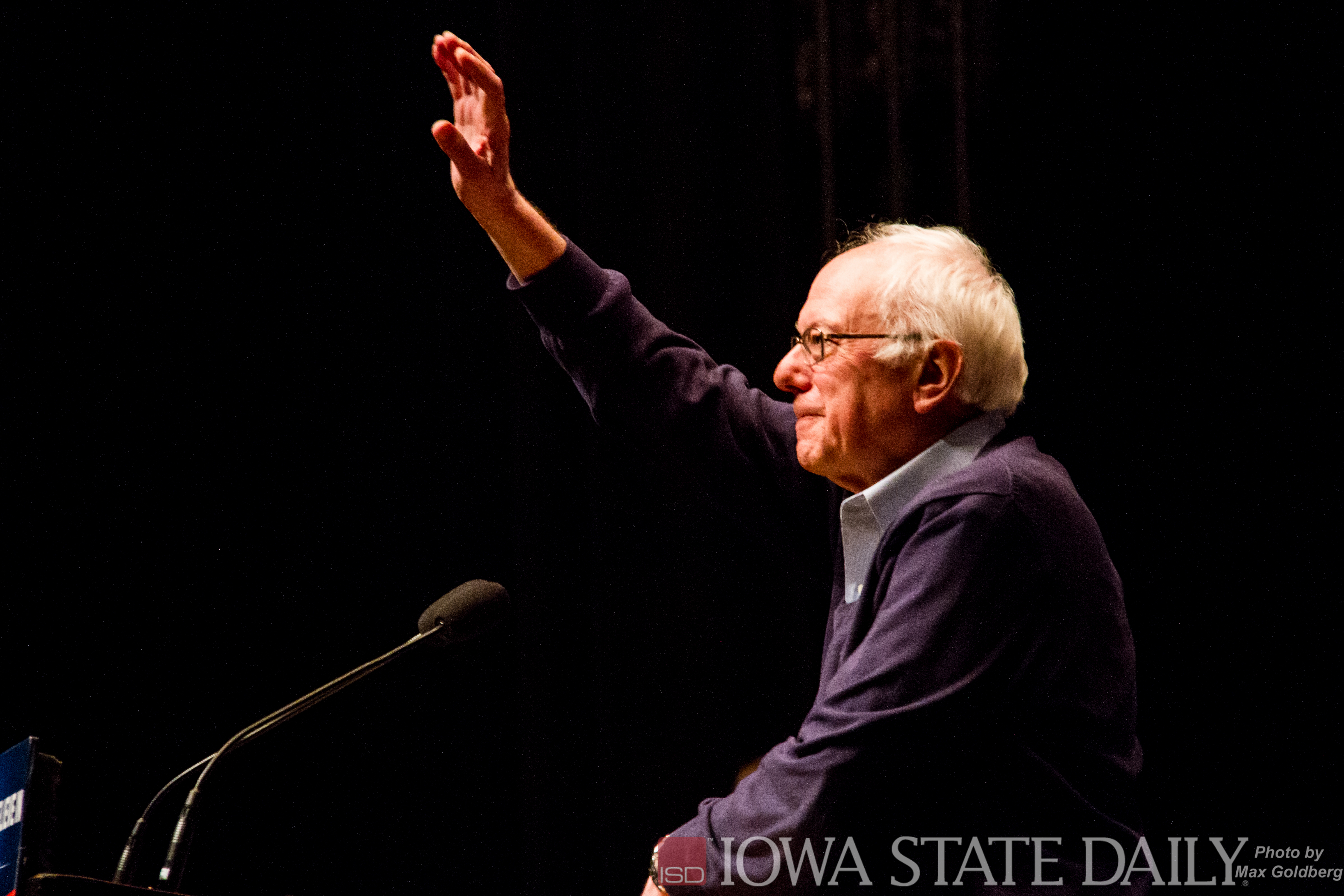 Democratic presidential hopeful Bernie Sanders hosts a town hall meeting at Stephens Auditorium on Jan 25. During the meeting, Sanders spoke about getting young people to vote, economic reform, gun violence, the legalization of marijuana, women’s rights, and more.